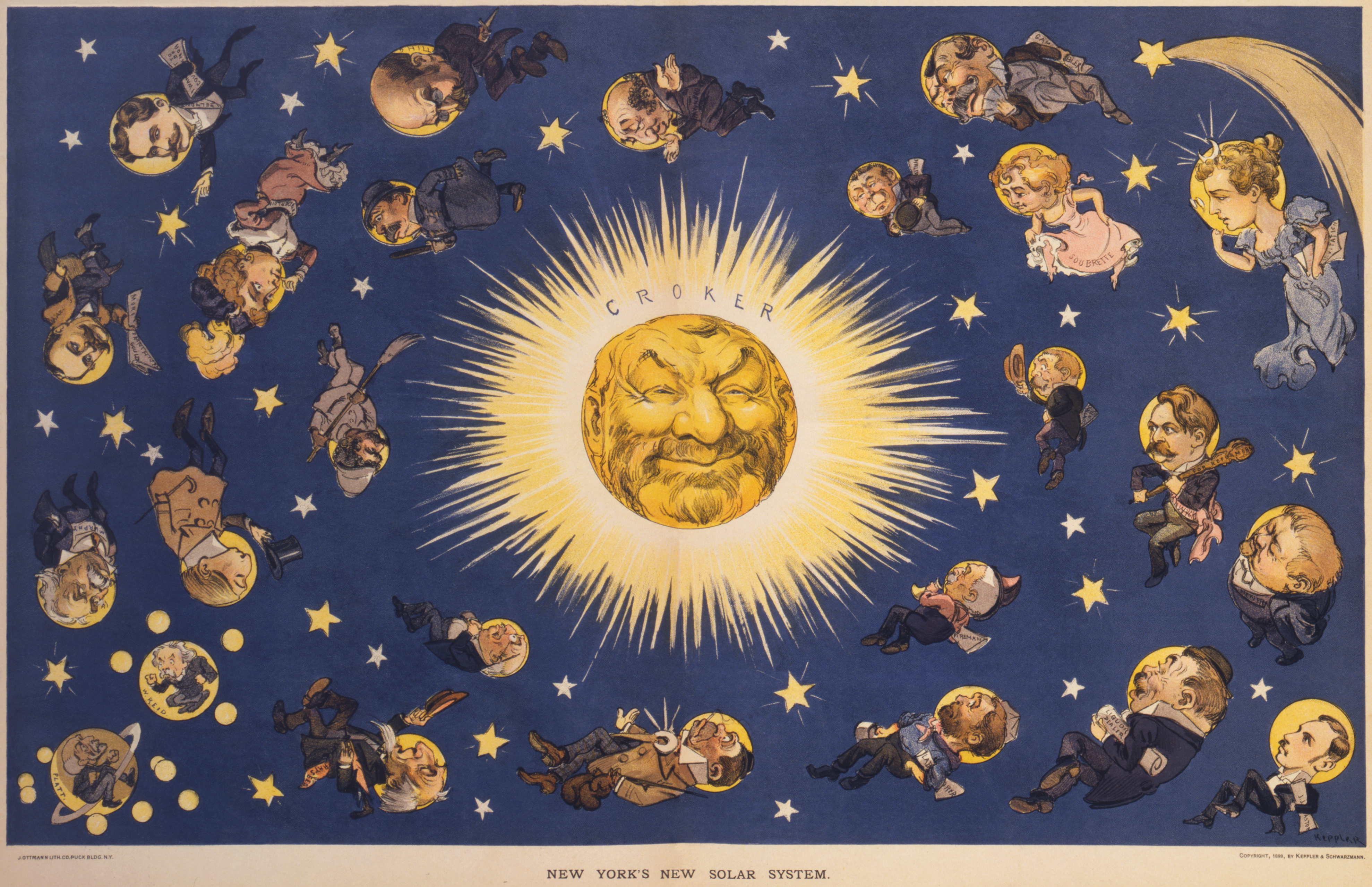 Library of Congress summary: "Caricature showing politicians and people representing different professions revolving around head of Richard "Boss" Croker as the Sun."